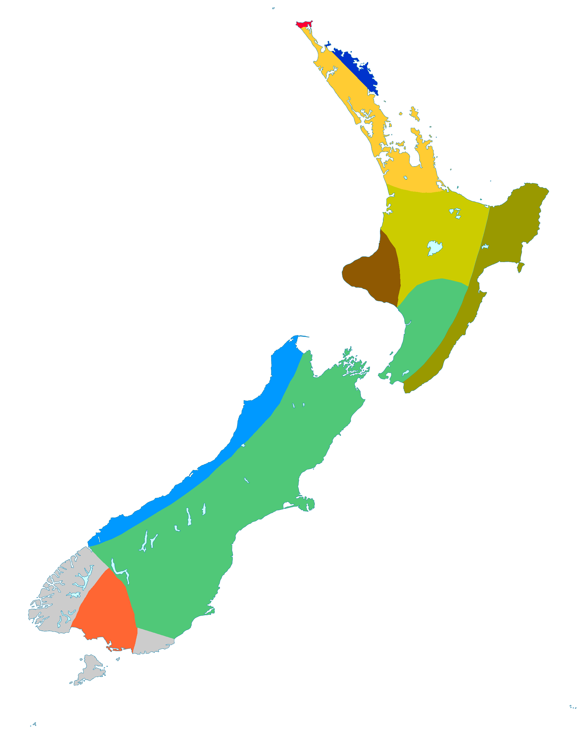 Distribution map showing ecotypes (regional variants) of Cordyline australis, Cabbage tree, endemic to New Zealand. Possible hybridisation with C. pumilio. Leaves floppy. North Cape Possible hybridisation with C. obtecta. Leaves straight, dark green, narrow. Eastern Northland Spindly trees with short broad leaves: Māori name Tītī. Northland and Auckland Robust trees with straight broad leaves, few branches: Māori name Tī manu. Central North Island Leaves narrow throughout, but lax in north, stiff in south: Māori name Tarariki. East Coast of the North Island Compact, densely branched trees. Taranaki Leaves long, relatively broad, flexible: Māori name Wharanui. Southern North Island (west of main divide), South Island (east of main divide) Robust trees with bluish leaves on the coast; tall trees with narrow, green leaves on river flats. South Island West Coast Robust trees with broad, lax leaves. Southland C. australis naturally absent. Catlins, Fiordland, Stewart Island Cordyline australis, the Cabbage tree is a tree endemic to New Zealand. Map based on Simpson, P. (2000). Dancing Leaves: The story of the New Zealand cabbage tree: Tī Kōuka. Christchurch: Canterbury University Press. p. 71.